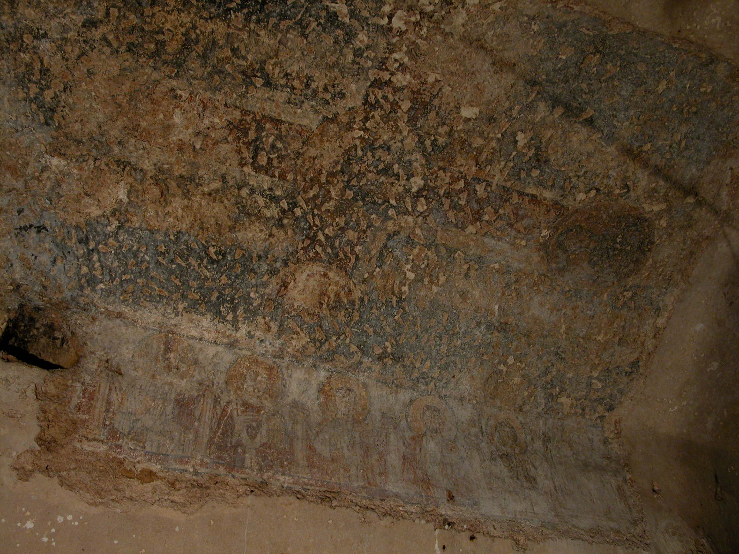 Pre-restoration image of the relics of 8th/9th century byzantine frescos in the catacombs of Saint Lucy at Syracuse, Italy.